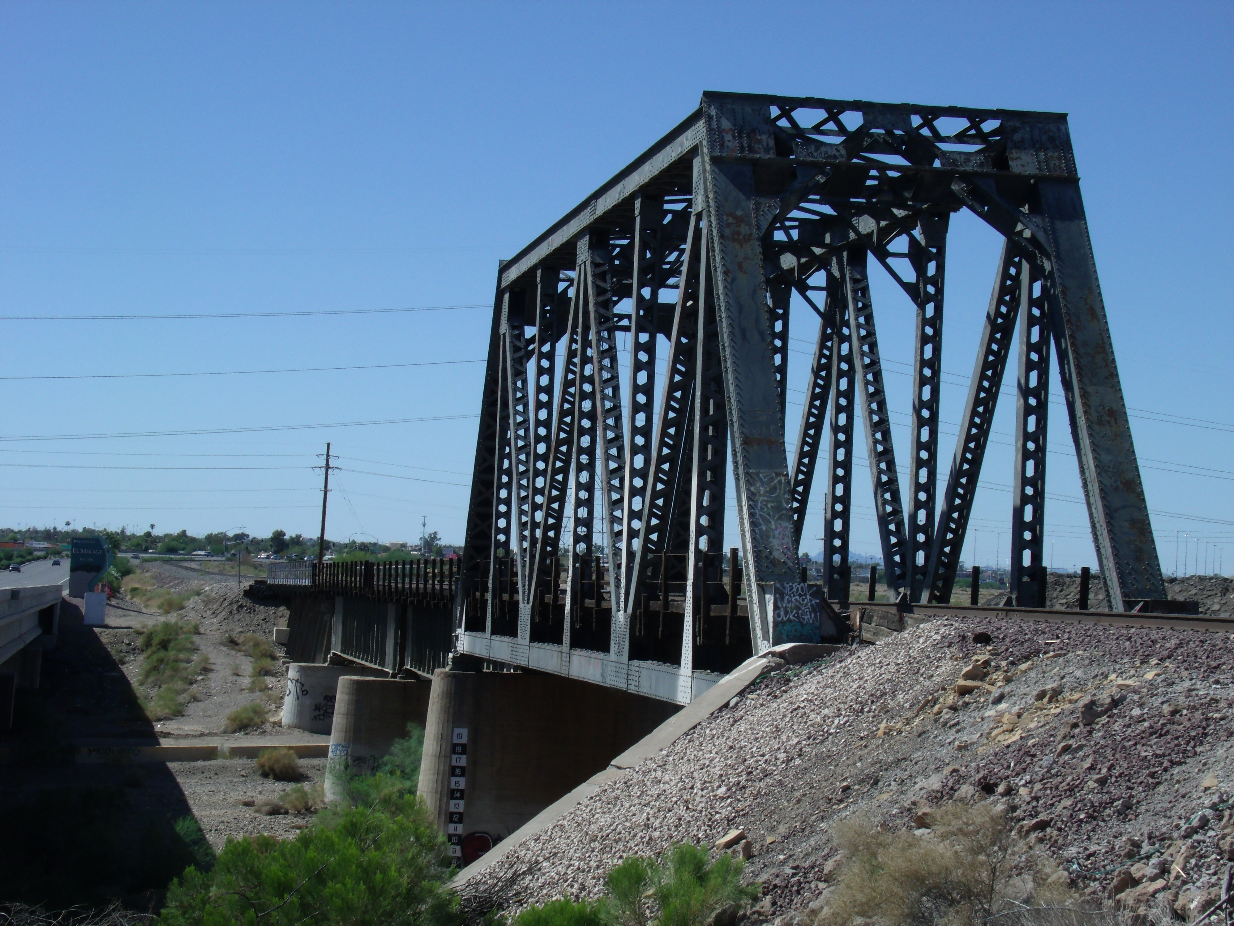 Different view of the historic "Agua Fria River" bridge which was built by the Santa Fe Railroad in 1895. It is located on the right side of Grand Ave. if traveled from Phoenix to Wickenburg, close to 111 Ave. in El Mirage, Az.